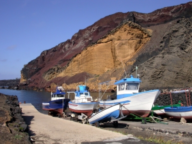 Small harbour for fishermen in the isle of Linosa, Sicily